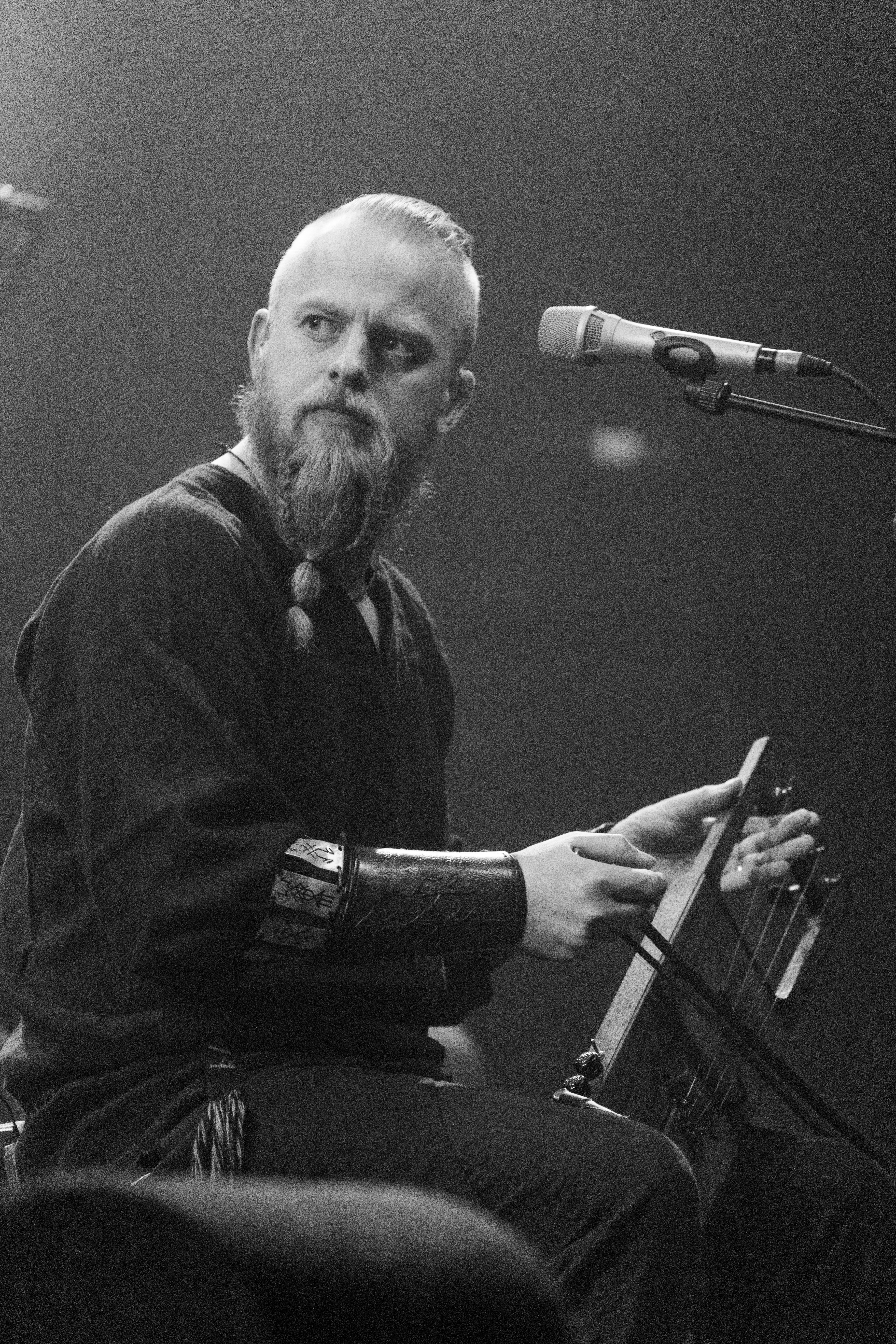 Wardruna performing at Roadburn Festival, april 2015